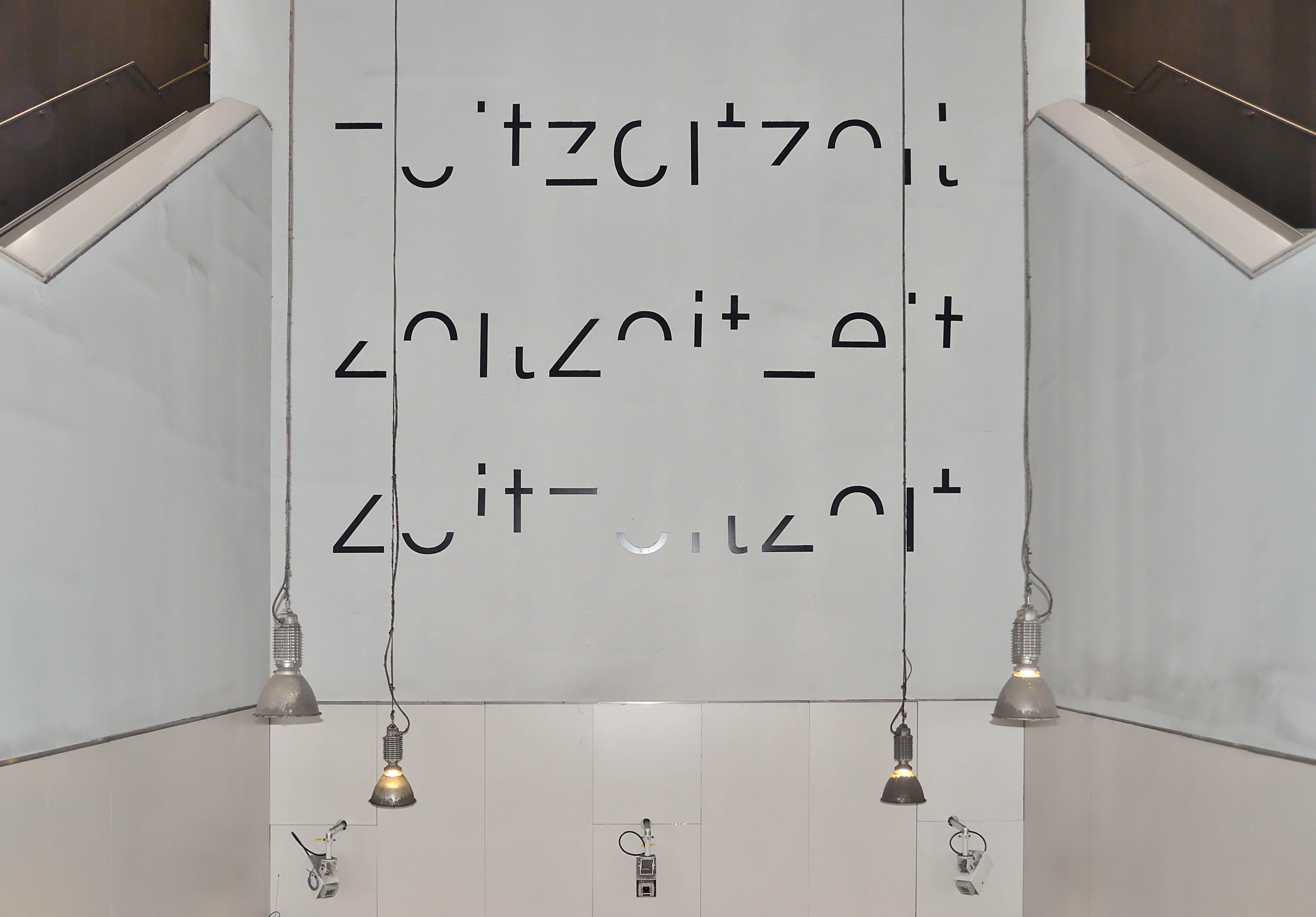 Raumtexte at the main library Vienna by Heinz Gappmayr, 2006.